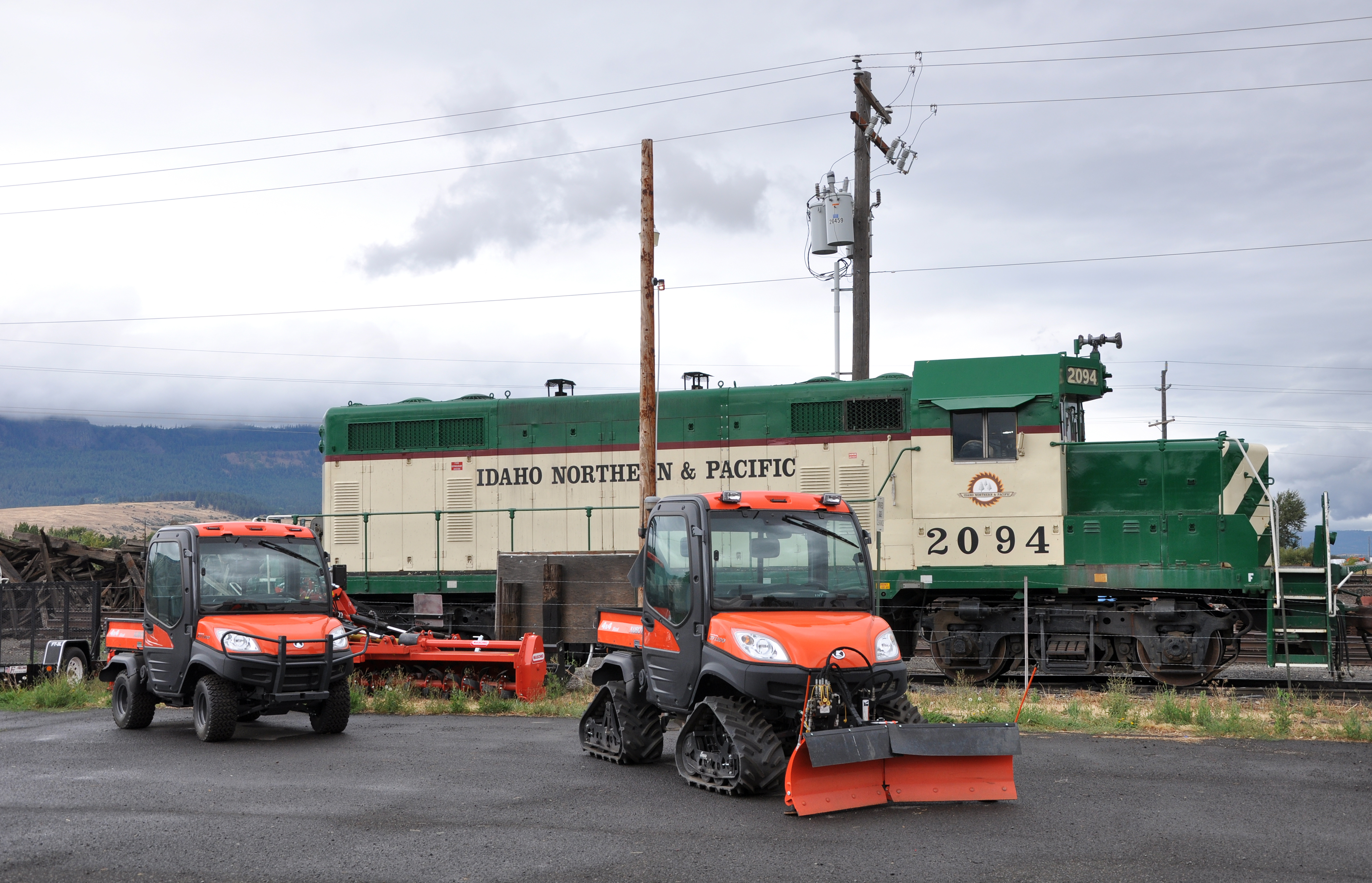 Locomotive and other vehicles along Island Avenue, Oregon Route 82, in Island City, Oregon, in the United States. The locomotive is an EMD GP7 (INPR #2094, ex-ATSF #2773).